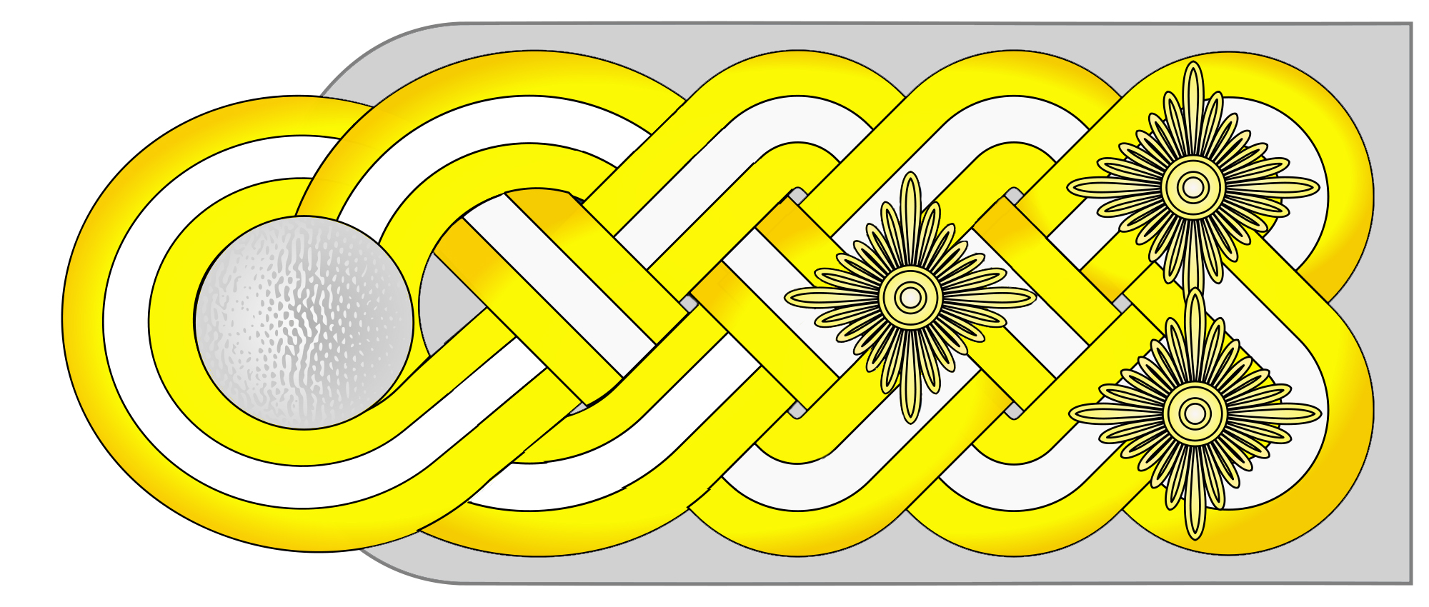 Rang insignia shoulder strap, here “SS-Oberst-Gruppenfuehrer and Colonel general of the Waffen-SS” (today comparable to NATO OF-9) until 1945.